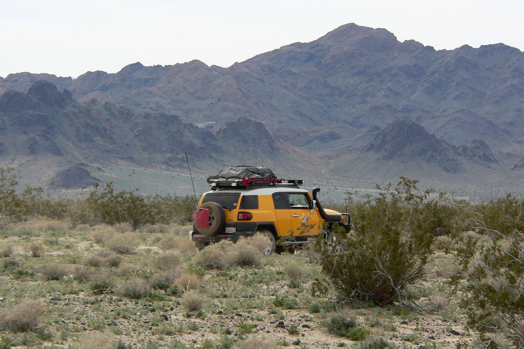 Well-equipped vehicle going west on the Old Mojave Road between Soda Dry Lake and the Kelbaker Road, Cowhole Mountain in the background, Mojave National Preserve, California